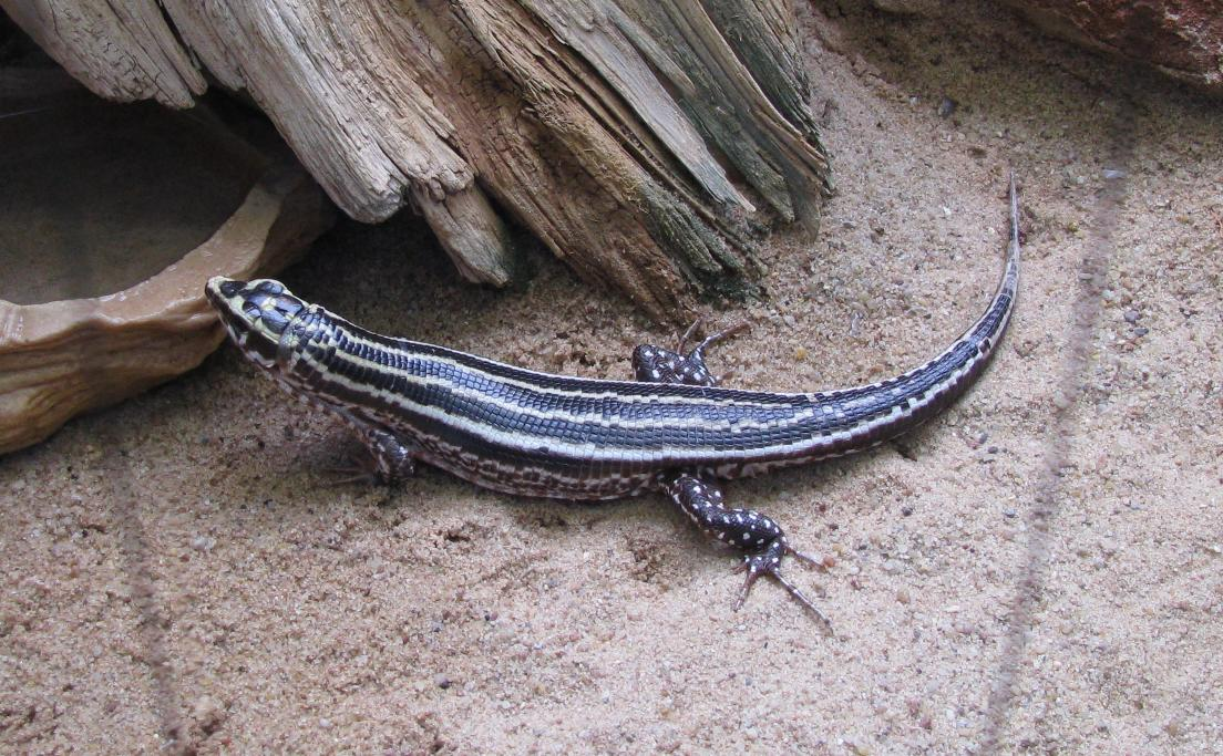 Zonosaurus quadrilineatus